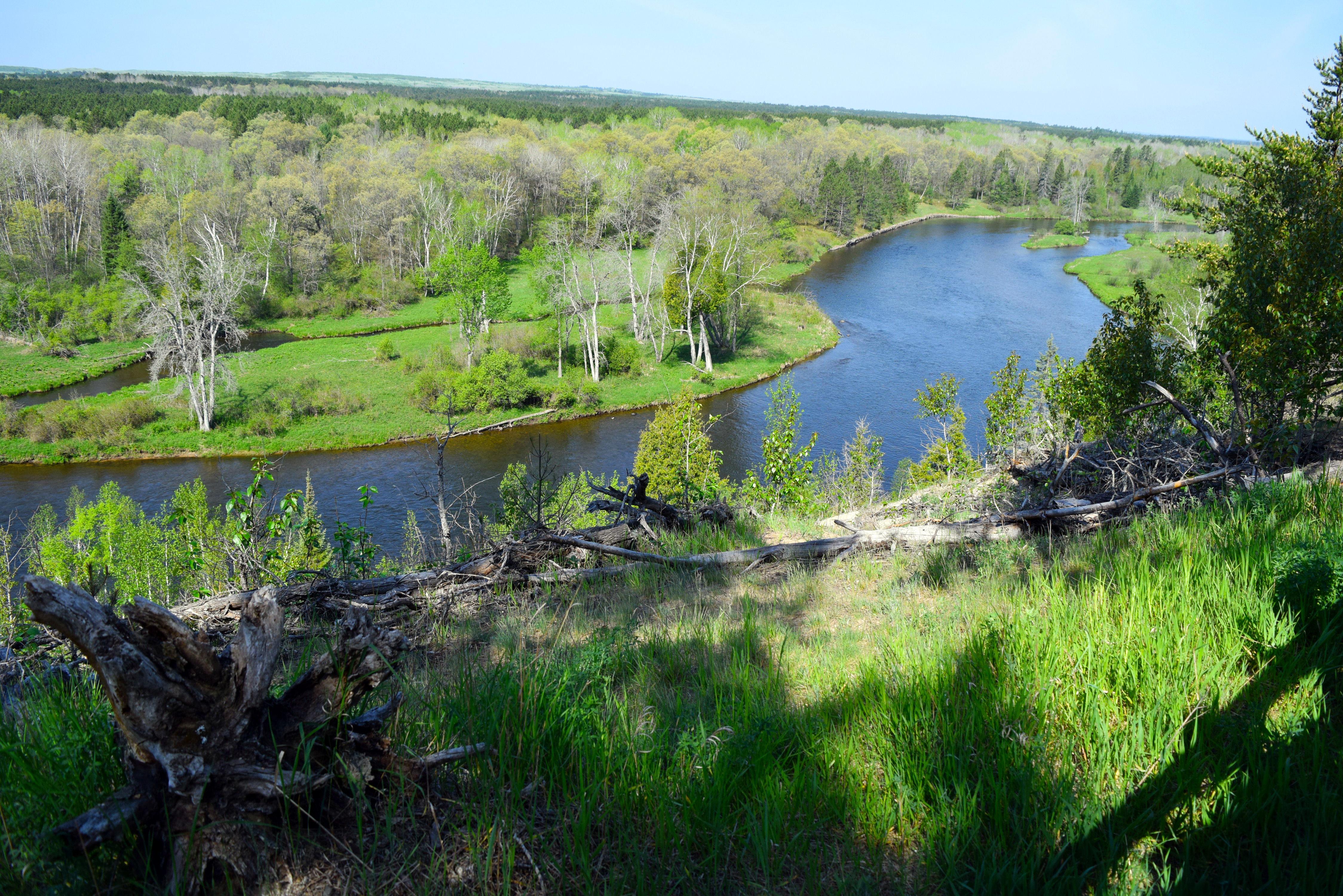 These bluffs of the Au Sable River provide some of the best and most dramatic views of the Au Sable River. Photo by Jessica Piispanen/USFWS